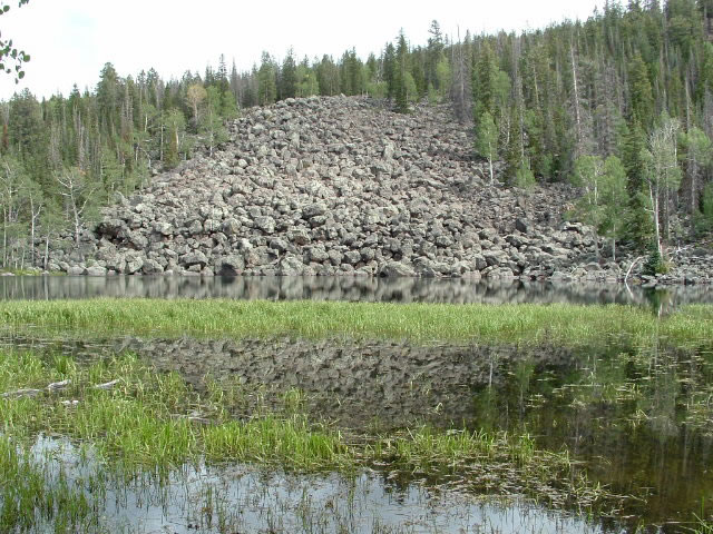 Rockslide in the Dixie National Forest, Utah, USA.